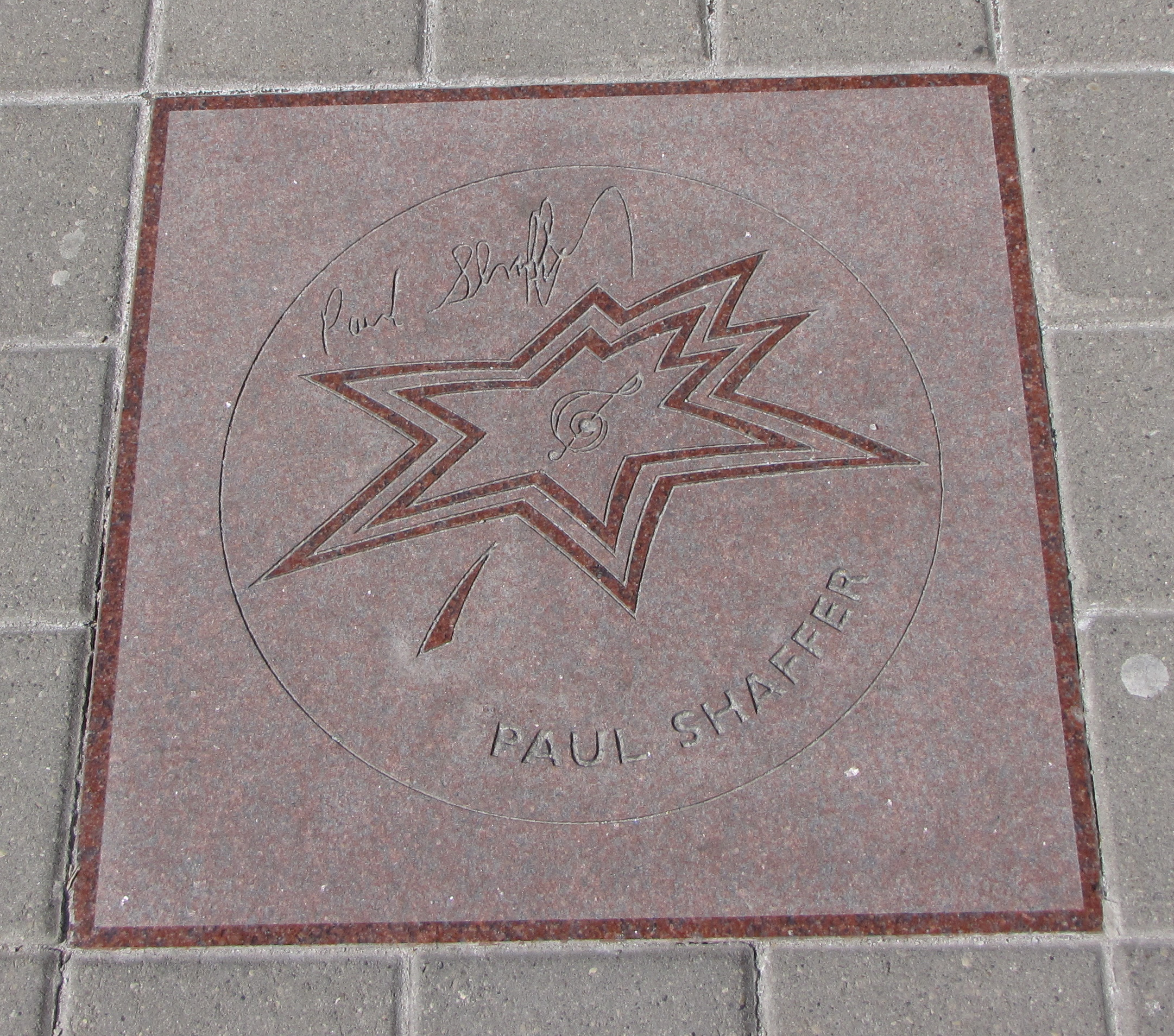 Paul Shaffer's star on Canada's Walk of Fame